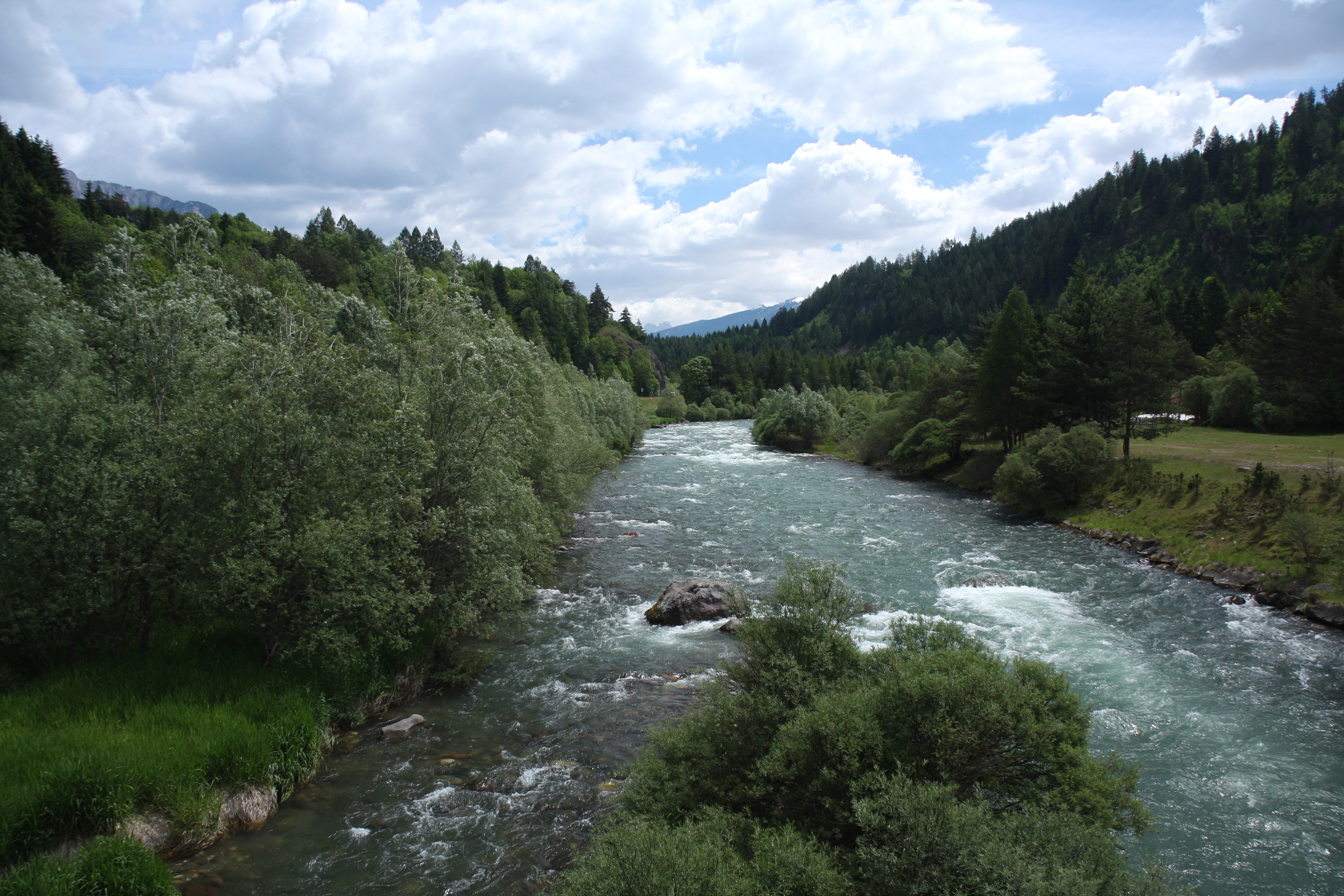 Avisio river just south of Cavalese, Trentino, Italy